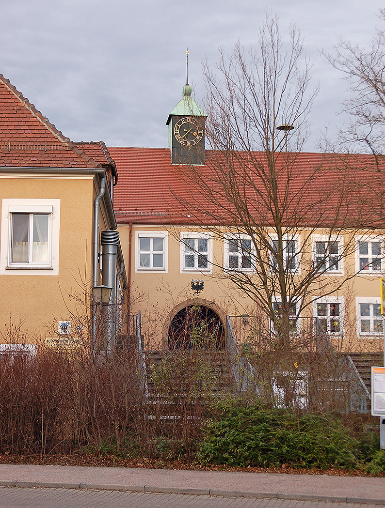 The building of the Ludwig-Heyd-Schule in Markgröningen, Baden-Württemberg, Germany